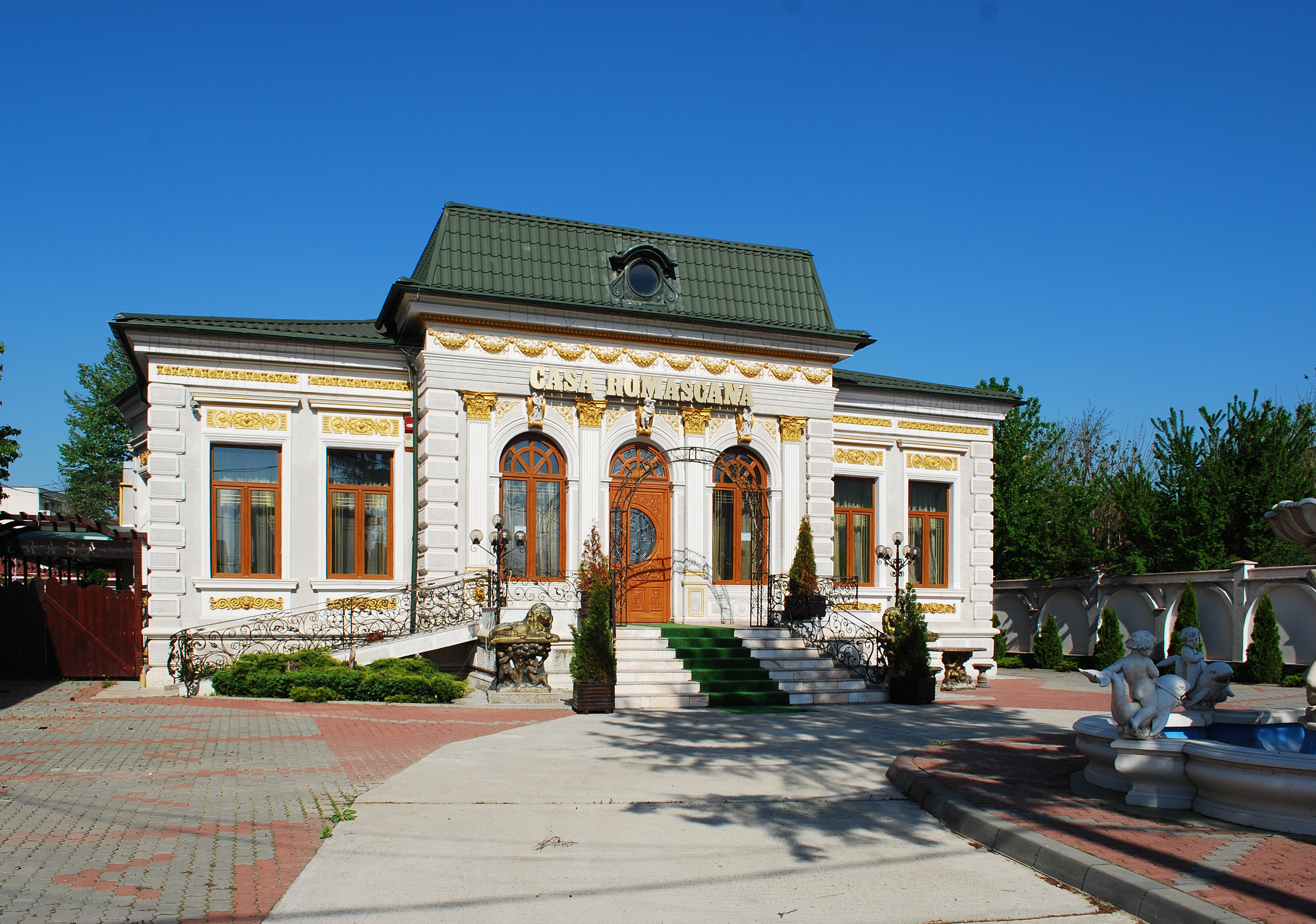 "Casa Romașcană" restaurant in Roman, Neamț County, RomaniaRomână: Restaurantul „Casa Romașcană” din Roman, județul Neamț, România